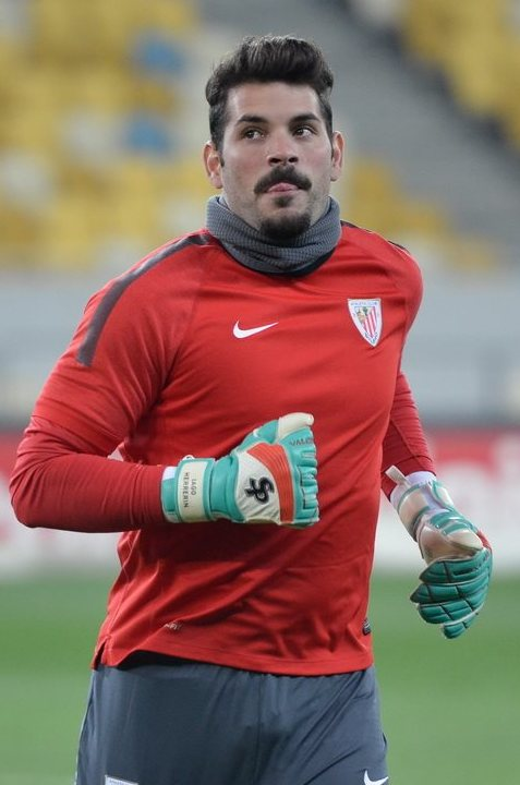 Iago Herrerín, player of Athletic Bilbao